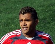 Amado Guevara (Small Picture. Derivative work taken from another wikimedia file named Amado Guevara 7